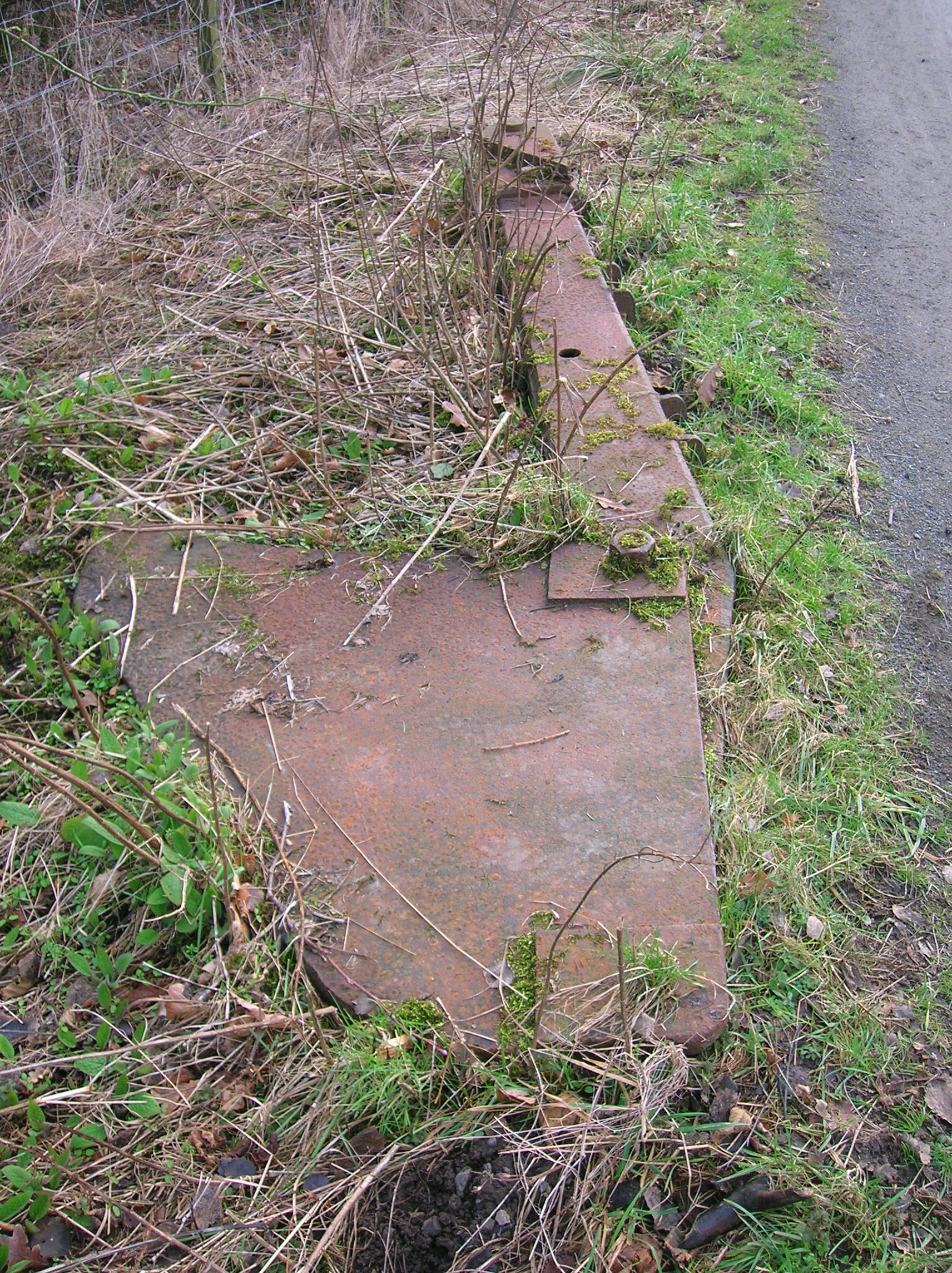 The 'Grubber' plough blade. Eglinton Country Park, Irvine, North Ayrshire, Scotland.